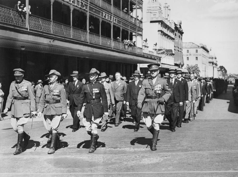 Veterans march on Anzac Day, Brisbane, 1937. The veterans are marching by Peoples Palace on Ann Street. Albert House is in the distance.